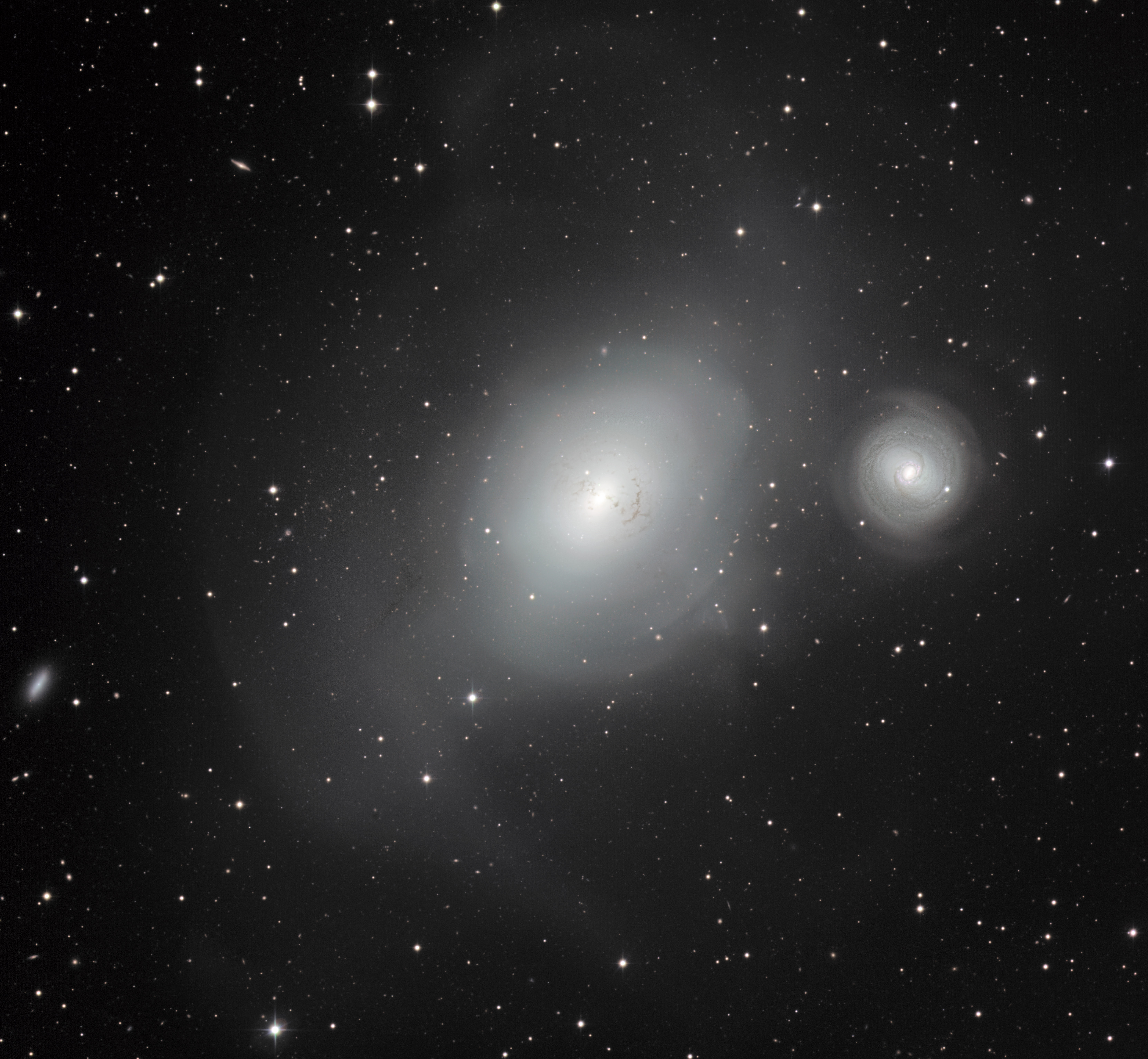 This new image from the MPG/ESO 2.2-metre telescope at ESO’s La Silla Observatory in Chile shows a contrasting pair of galaxies: NGC 1316, and its smaller companion NGC 1317 (right). Although NGC 1317 seems to have had a peaceful existence, its larger neighbour bears the scars of earlier mergers with other galaxies.